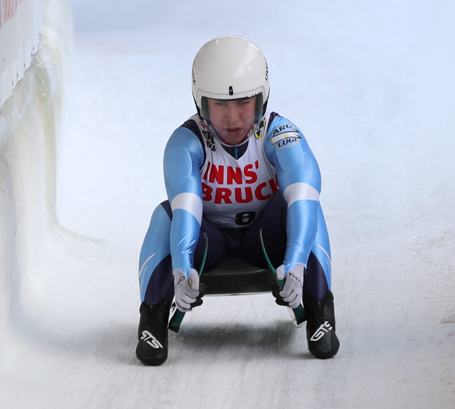 Women's Nations Cup race at the 2019/20 Luge World Cup in Innsbruck-Igls